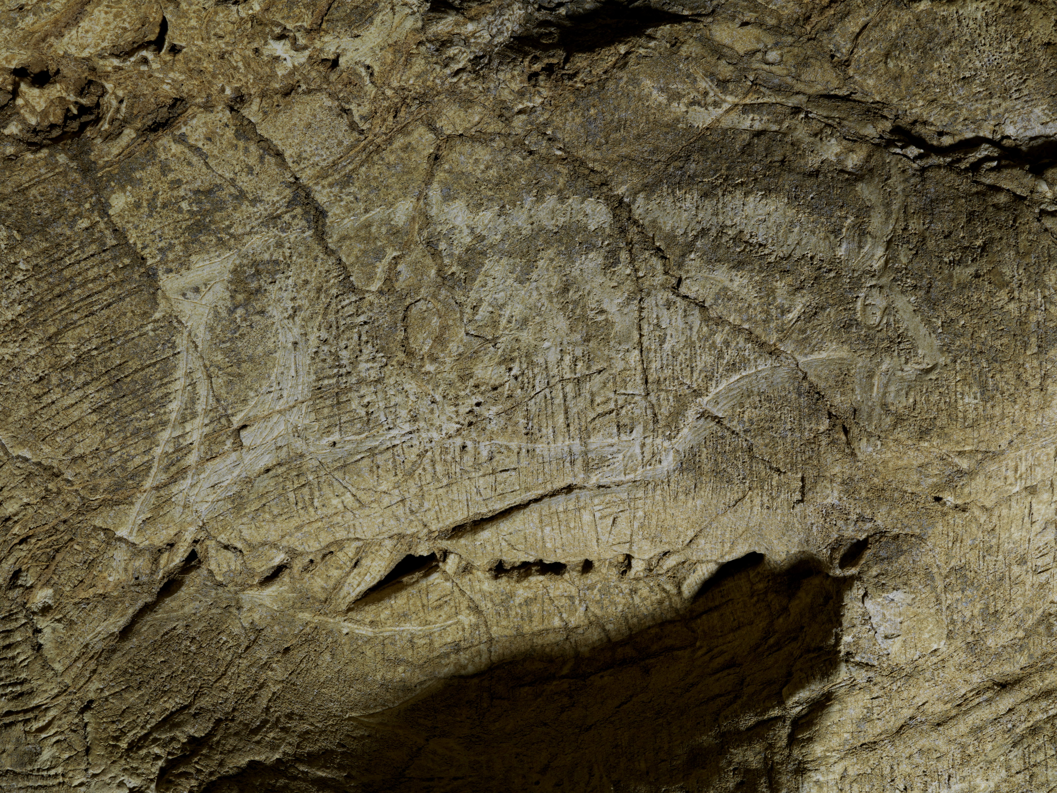 Altxerri ibex. The engraving is stroke width.